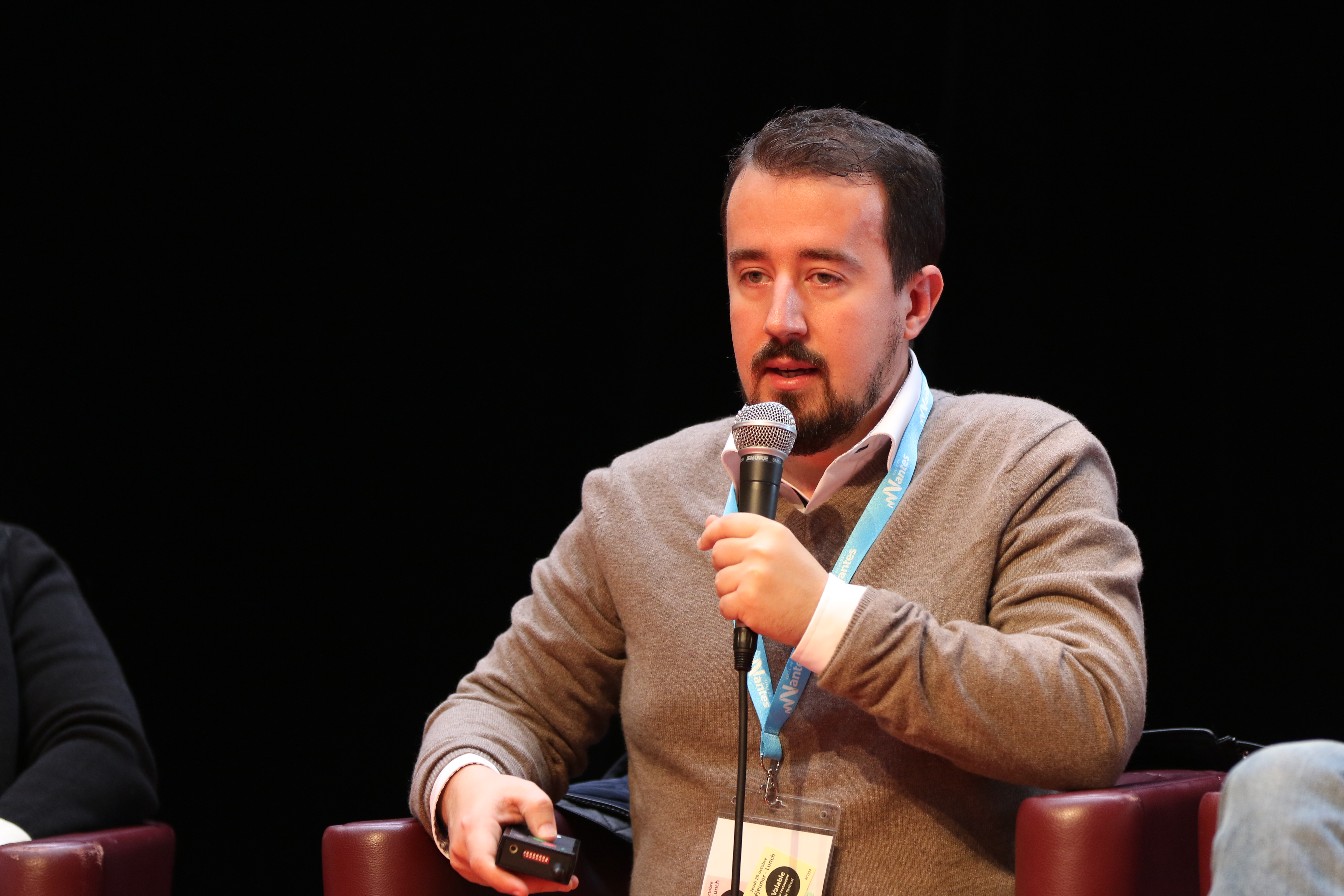 photograph taken at the 2015 edition of the "Utopiales" of Nantes.